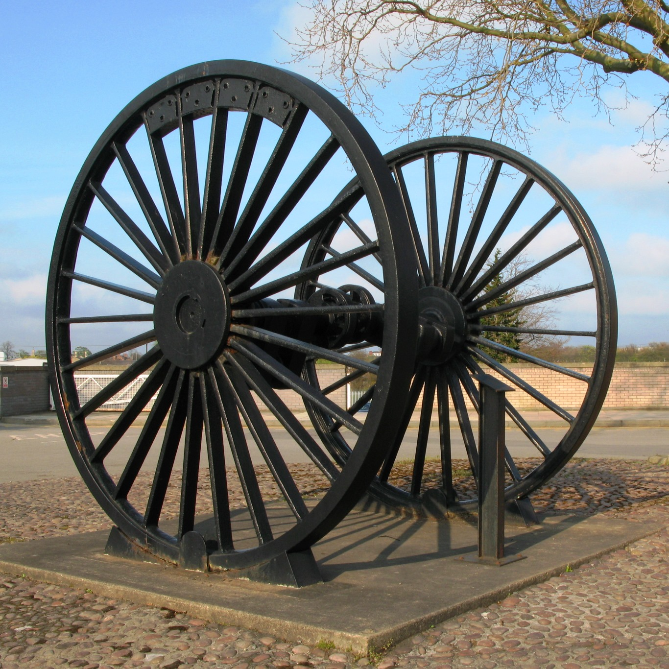 The driving wheels from a Bristol and Exeter Railway broad gauge 4-2-4T locomotive, presereved outside the National Railway Museum, York, England.